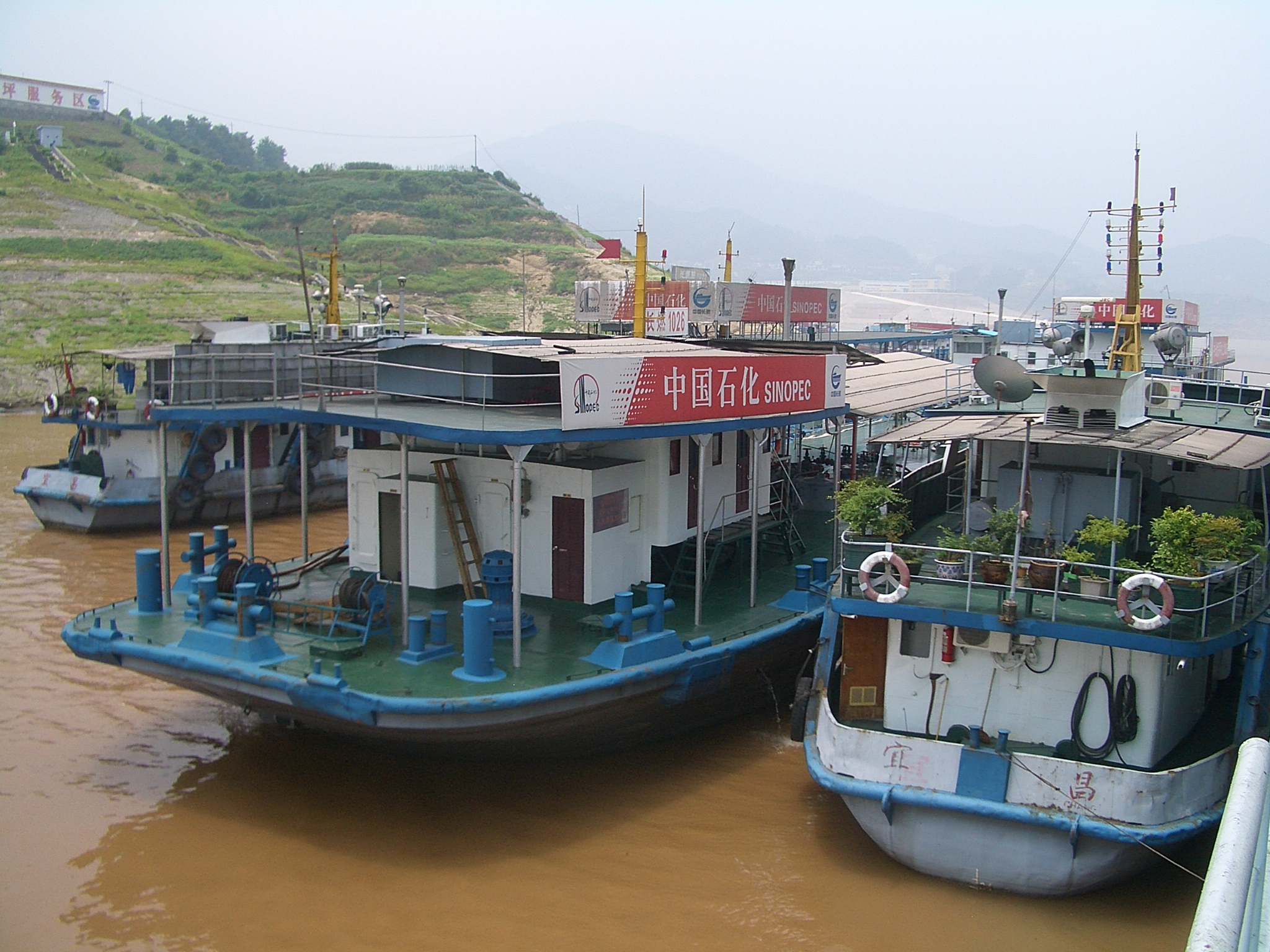 Boat fueling station (owned by Sinopec) on the right bank of the Yangtze in Zigui County, just a bit upstream from Maoping port